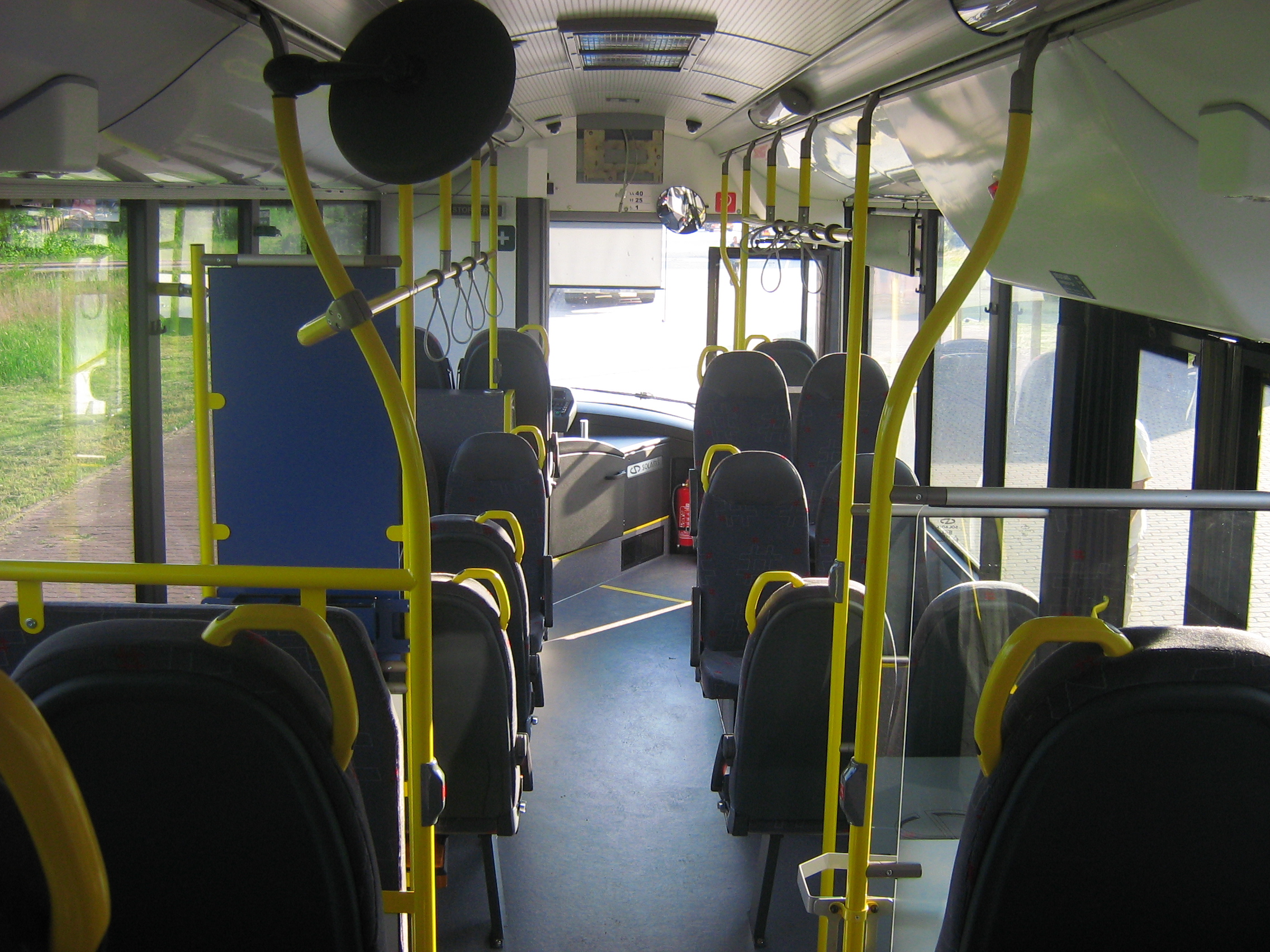 Solaris Urbino 12 LE bus in Świnoujście, Poland. Year built 2009. Bus in way to Norway.